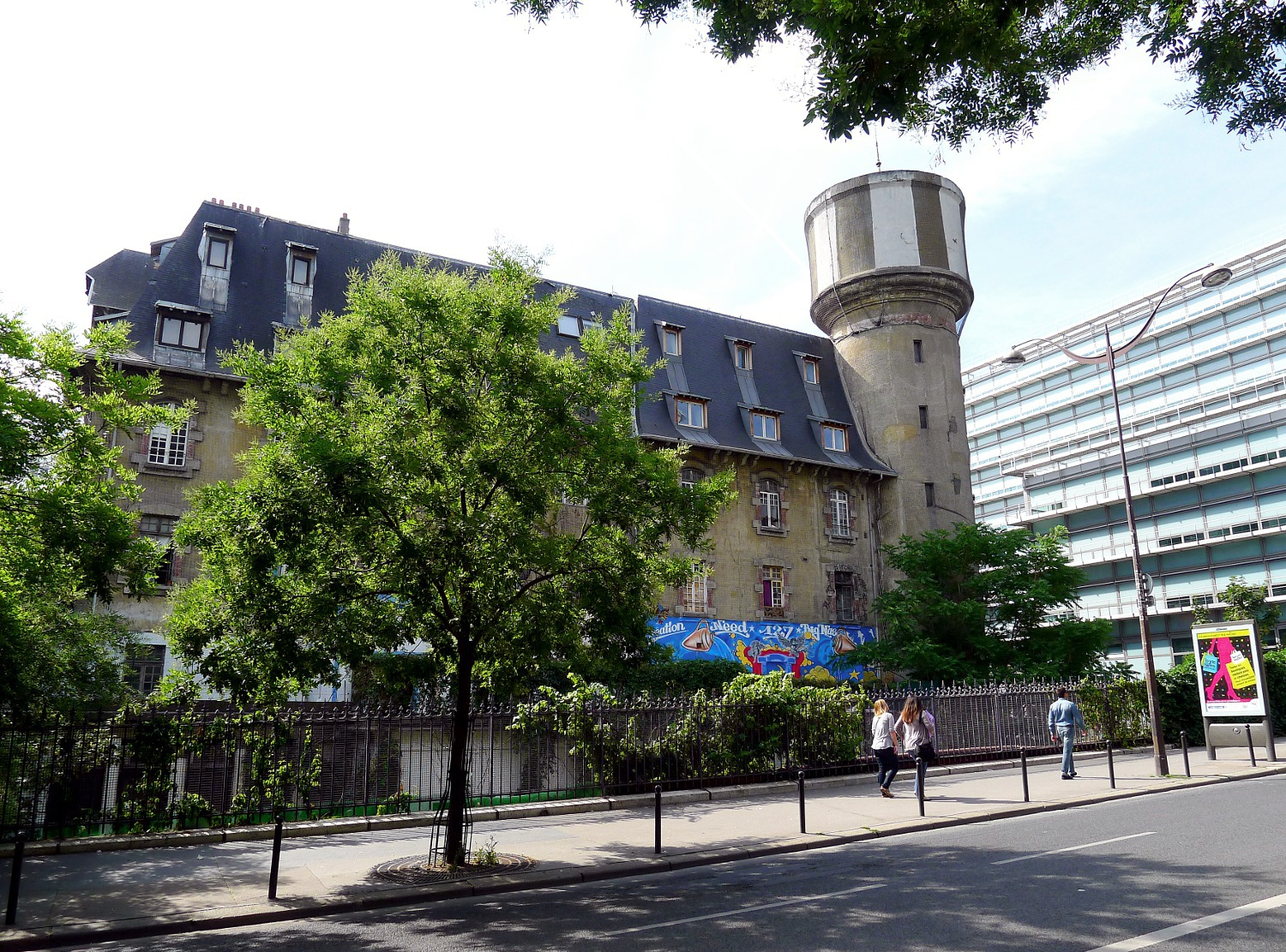 Frigos - Paris